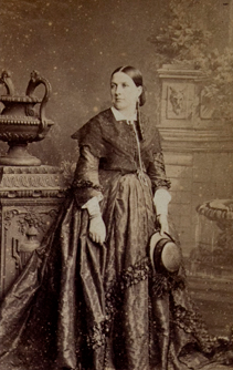 Portrait of Constance Nantier-Didiée standing in front of a studio drop.